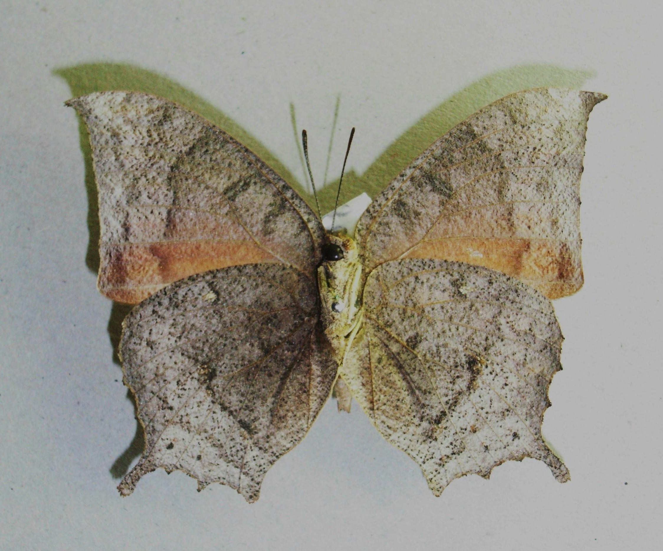 Anaea troglodyta (Fabricius, 1775)aidea (Guérin-Méneville, [1844]):Charaxinae:Nymphalidae